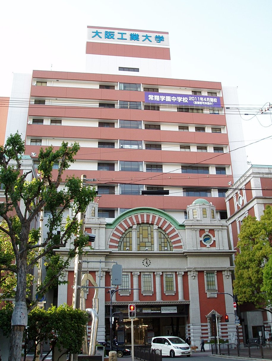 Main gate of Omiya Campus, Osaka Institute of Technology.Located in Asahi-ku, Osaka, Japan.